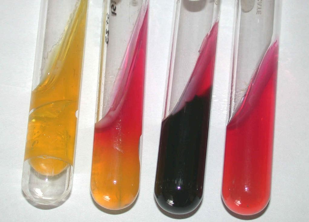 Different results for the TSI agar (from left to right): (a) organism can utilize several carbohydrates, including lactose and has produced gas, (b) organism can only utilize glucose, (c) organism has produced H2S, (d) no reaction or agar was not inoculated.